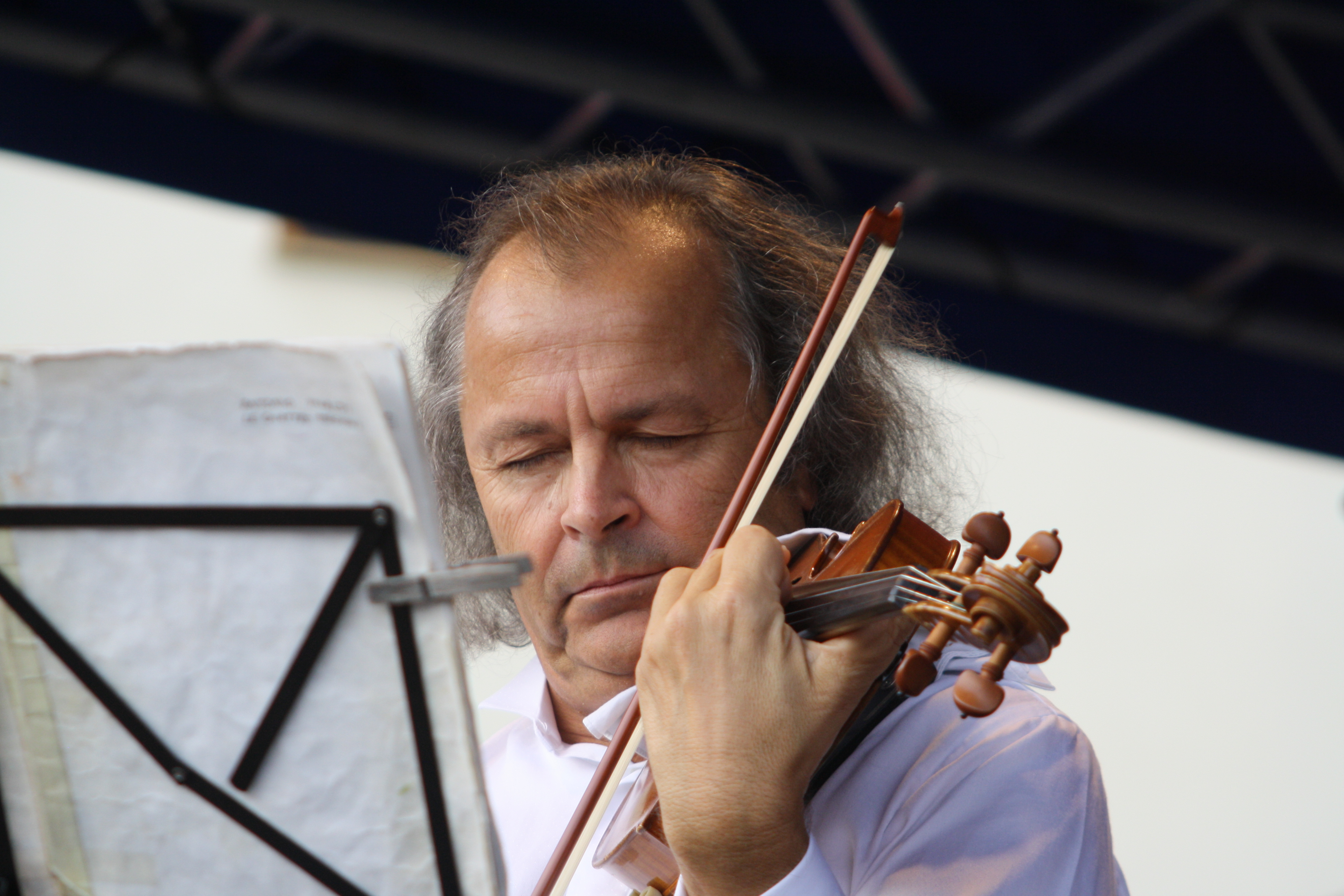 Václav Hudeček in Třebíč.